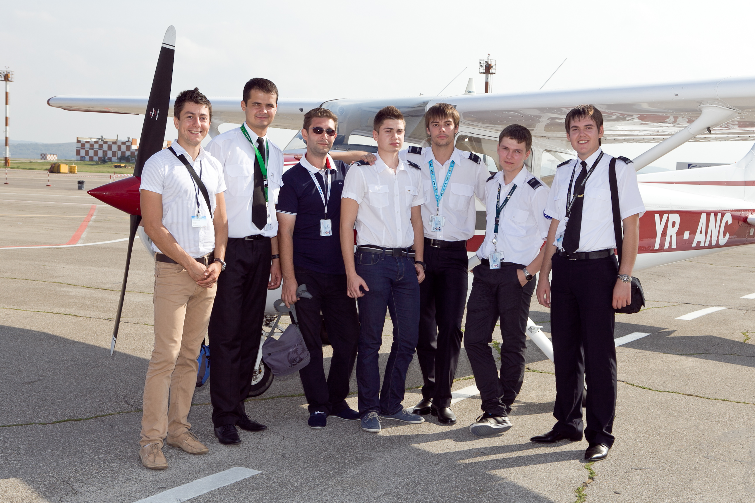 Fly Level students near cessna 172